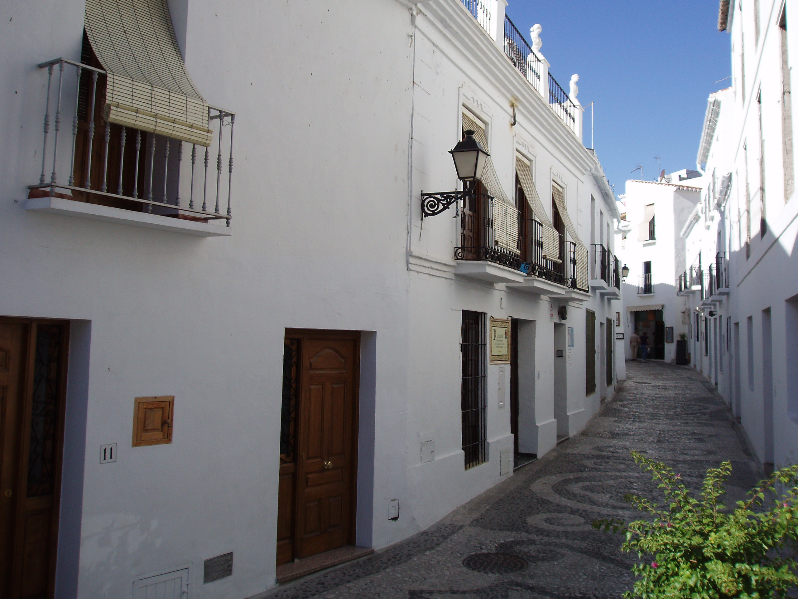 Impressions of Frigiliana in the province of Málaga (Andalusia, Spain).